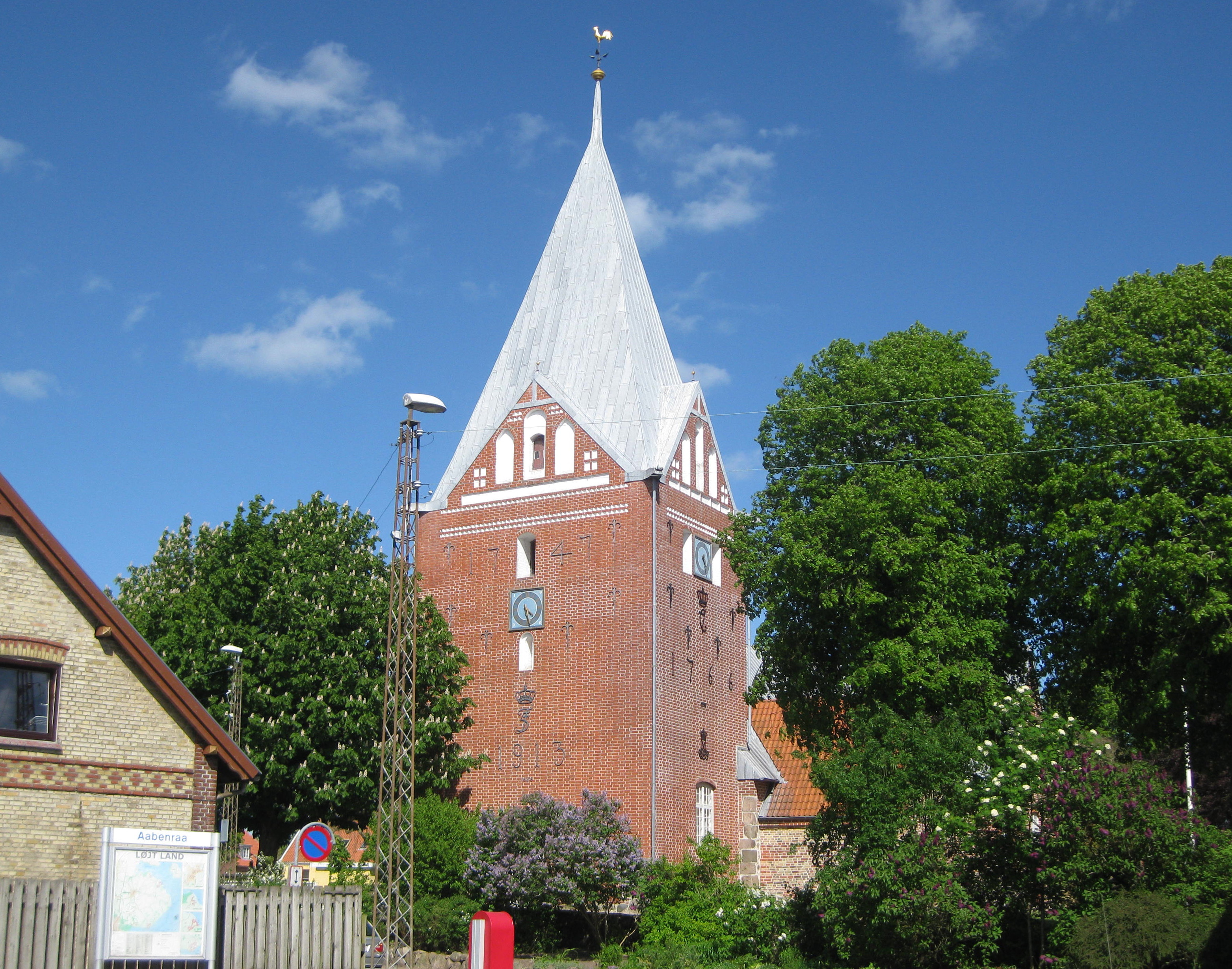 The church "Løjt Kirke" in the small town "Løjt Kirkeby". The town is located in Southern Jutland, Denmark.